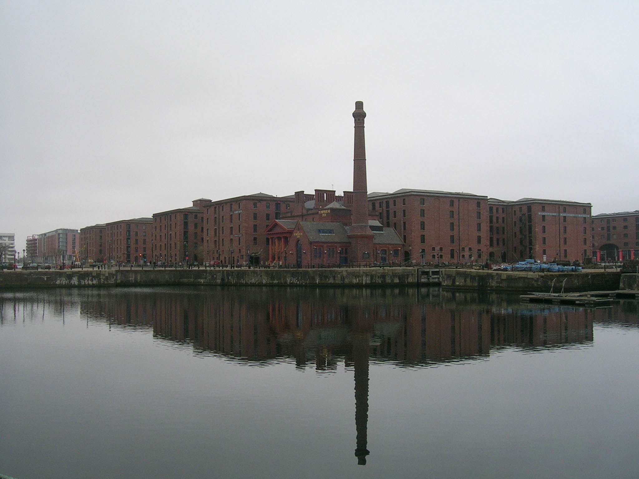 Taken from The Strand if my memory serves me rightly ;)